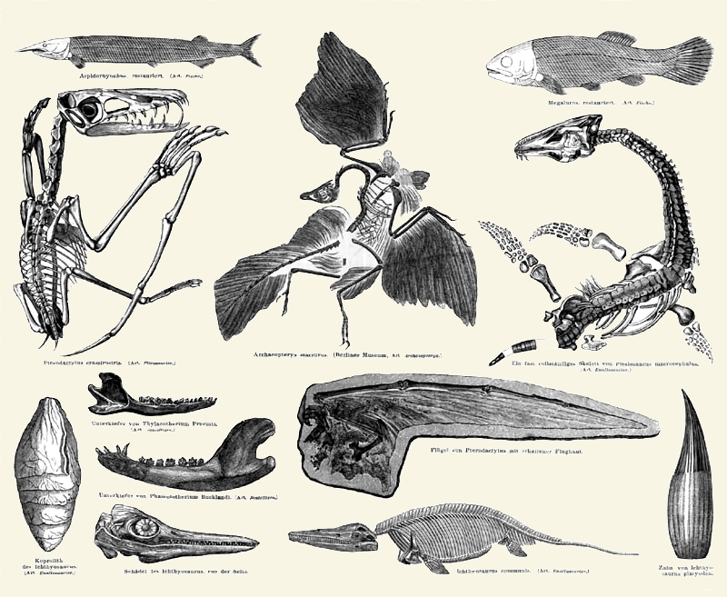 Selected vertebrate fossils from marine deposits of the Jurassic age